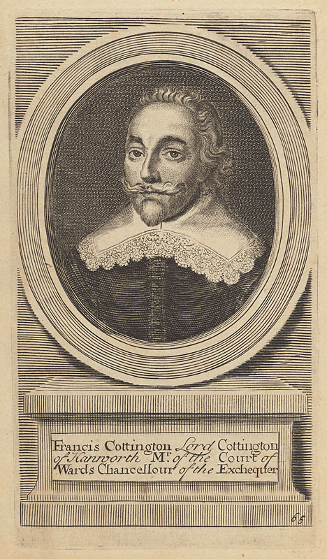 Francis Cottington, 1st Baron Cottington (c1579-1652)